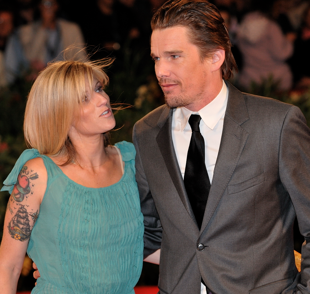 French 66ème Festival du Cinéma de Venise (Mostra), 8ème jour (07/09/2009) Tapis rouge avec Ethan Hawke et Wesley Snipes et le réalisateur Antoine Fuqua pour le film : Brooklyn's Finest English 66th Venice Film Festival, the eighth day (07/09/2009) Red Carpet with Wesley Snipes and Ethan Hawke and director Antoine Fuqua for the film Brooklyn's Finest